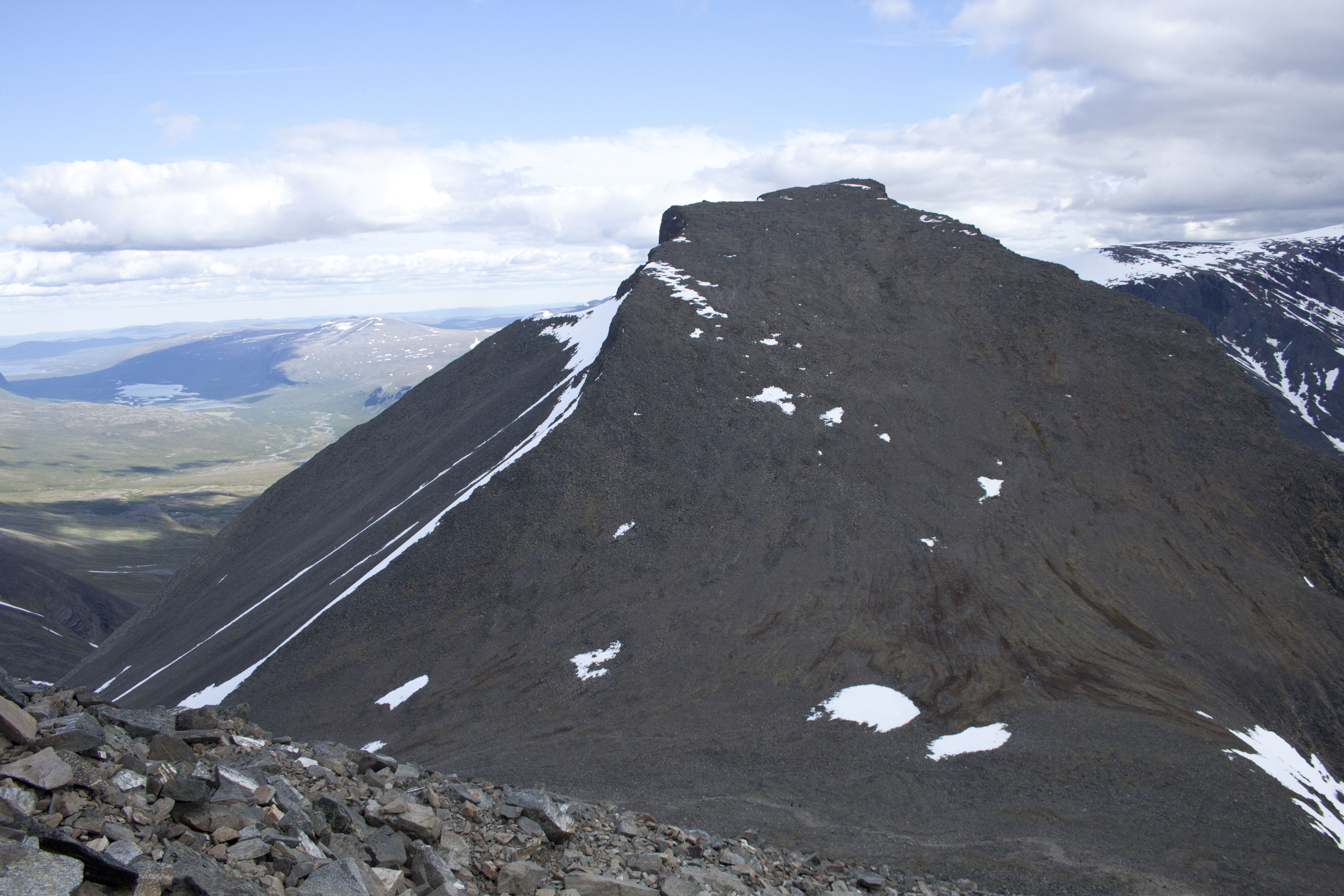 View over Duolbagorni (1662 m), seen from the steep side of Vierranvárri (1711 m).